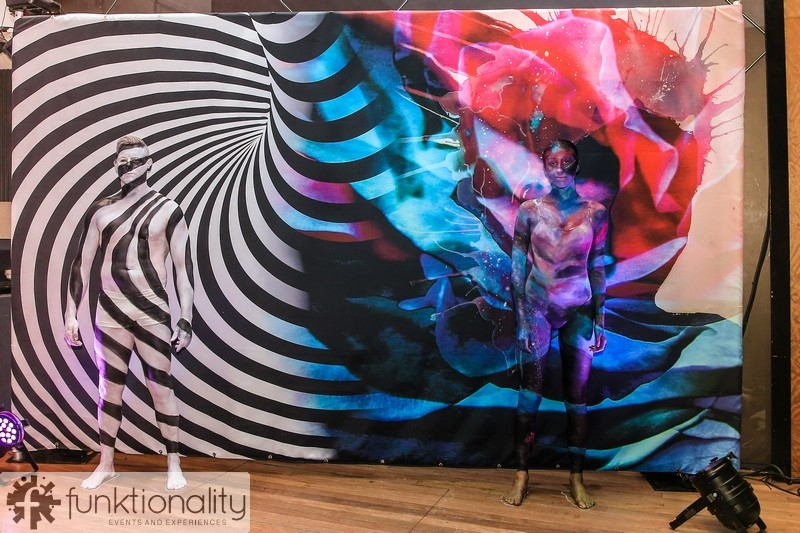 Goldwell Bodypainting